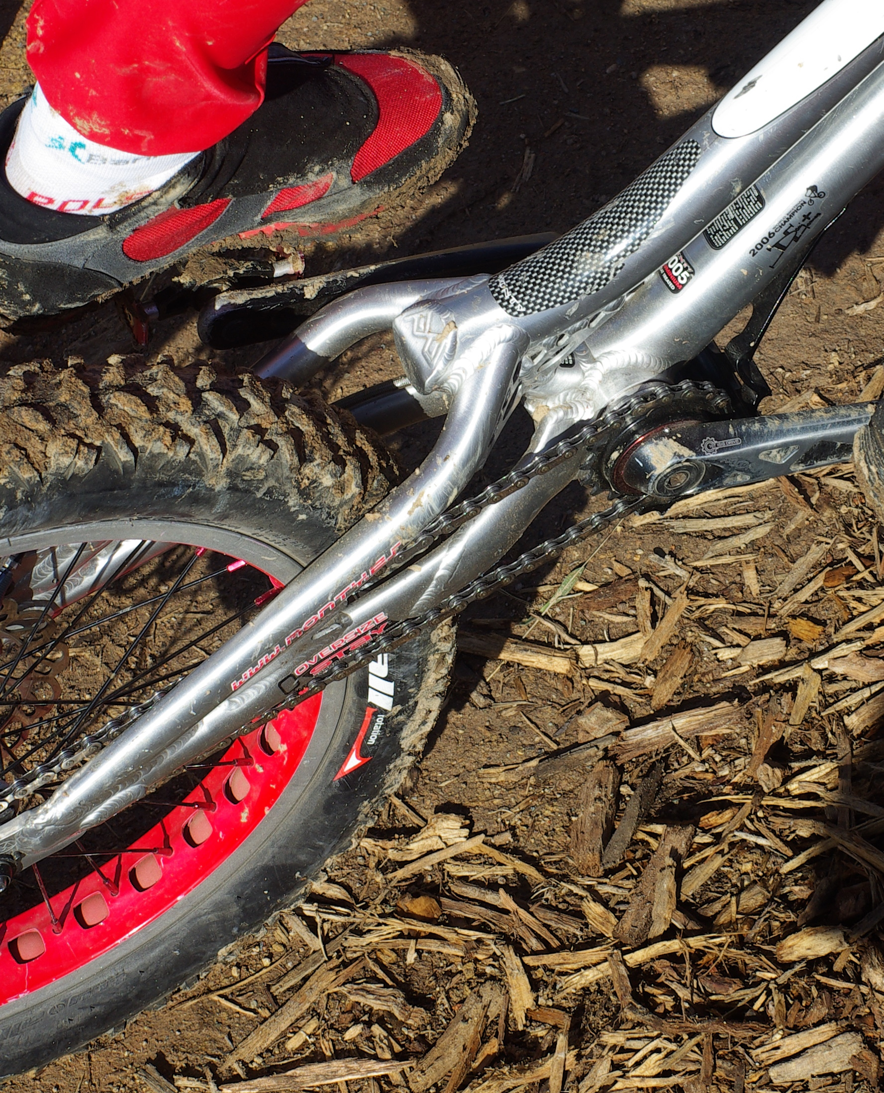 Close-up view of a 20" trials bike at the observed trials events at the 2009 UCI Mountain Bike & Trials World Championships held in Canberra, Australia.